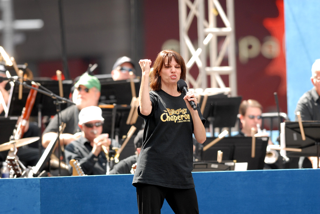 The Drowsy Chaperone cast members Bob Martin and Beth Leavel perform "As We Stumble Along" at Broadway on Broadway, September 10th 2006.